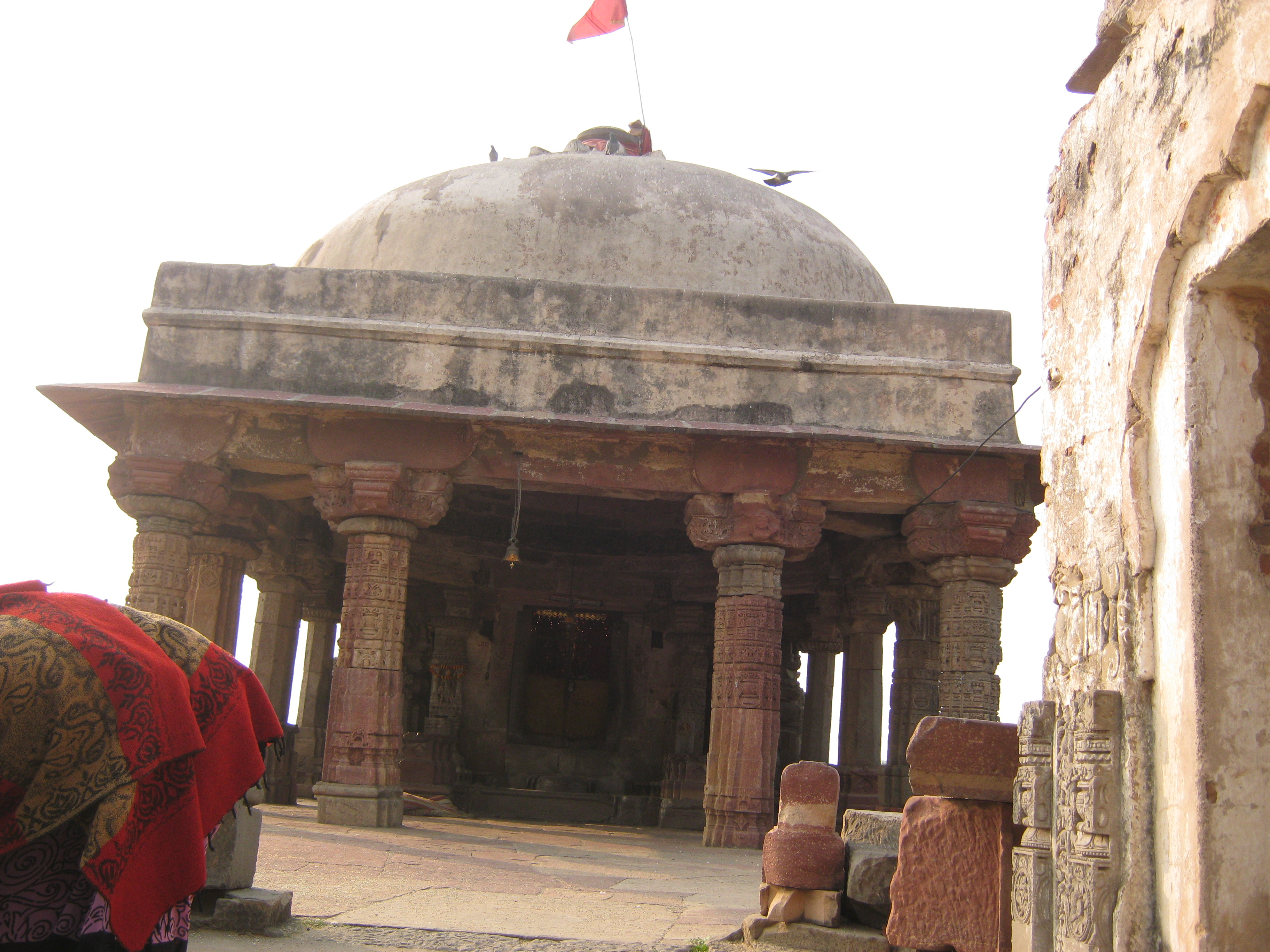 Harshad Mata Temple